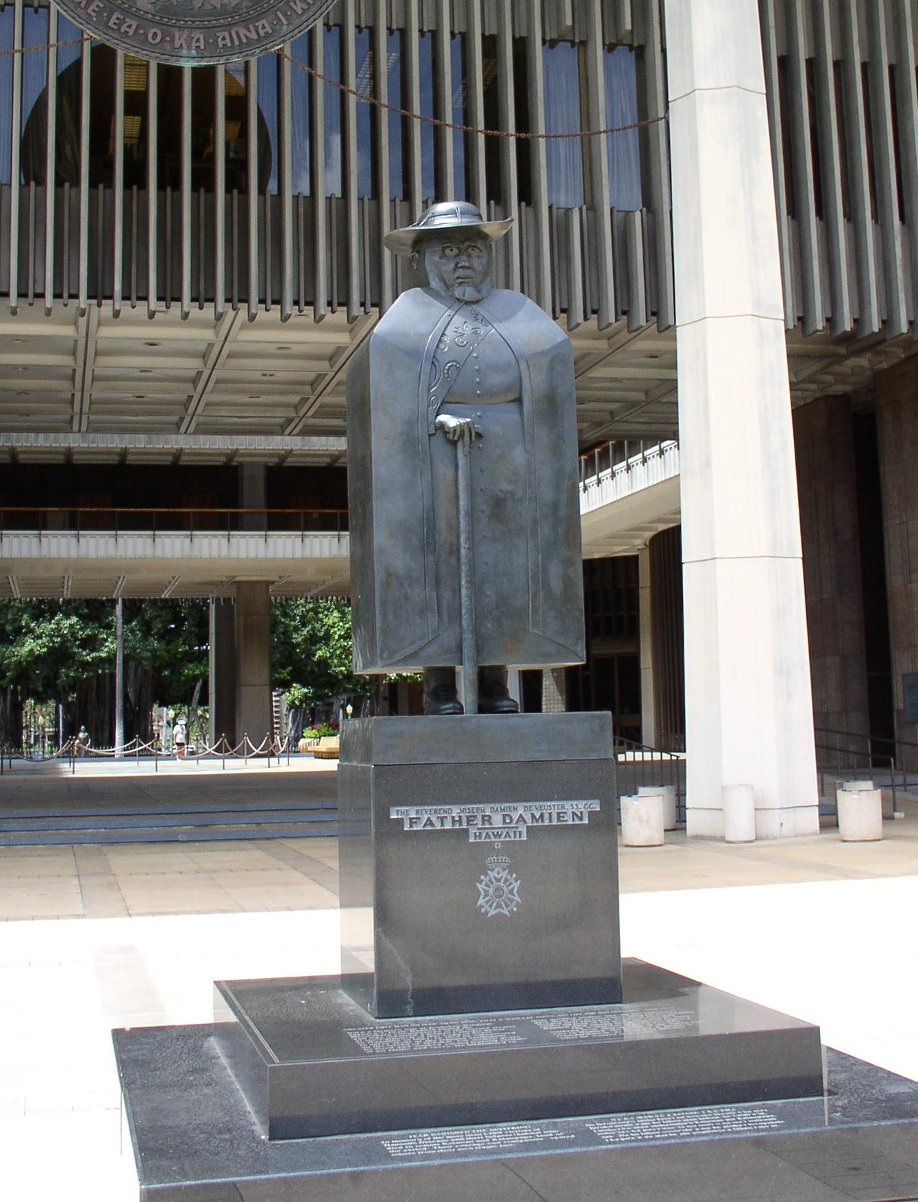 Statue of Father Damien at entrance to Hawaii State House by Marisol Escobar